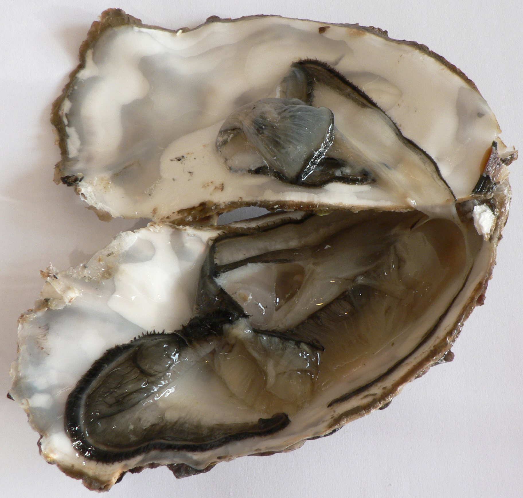 Oyster from Marennes-Oléron